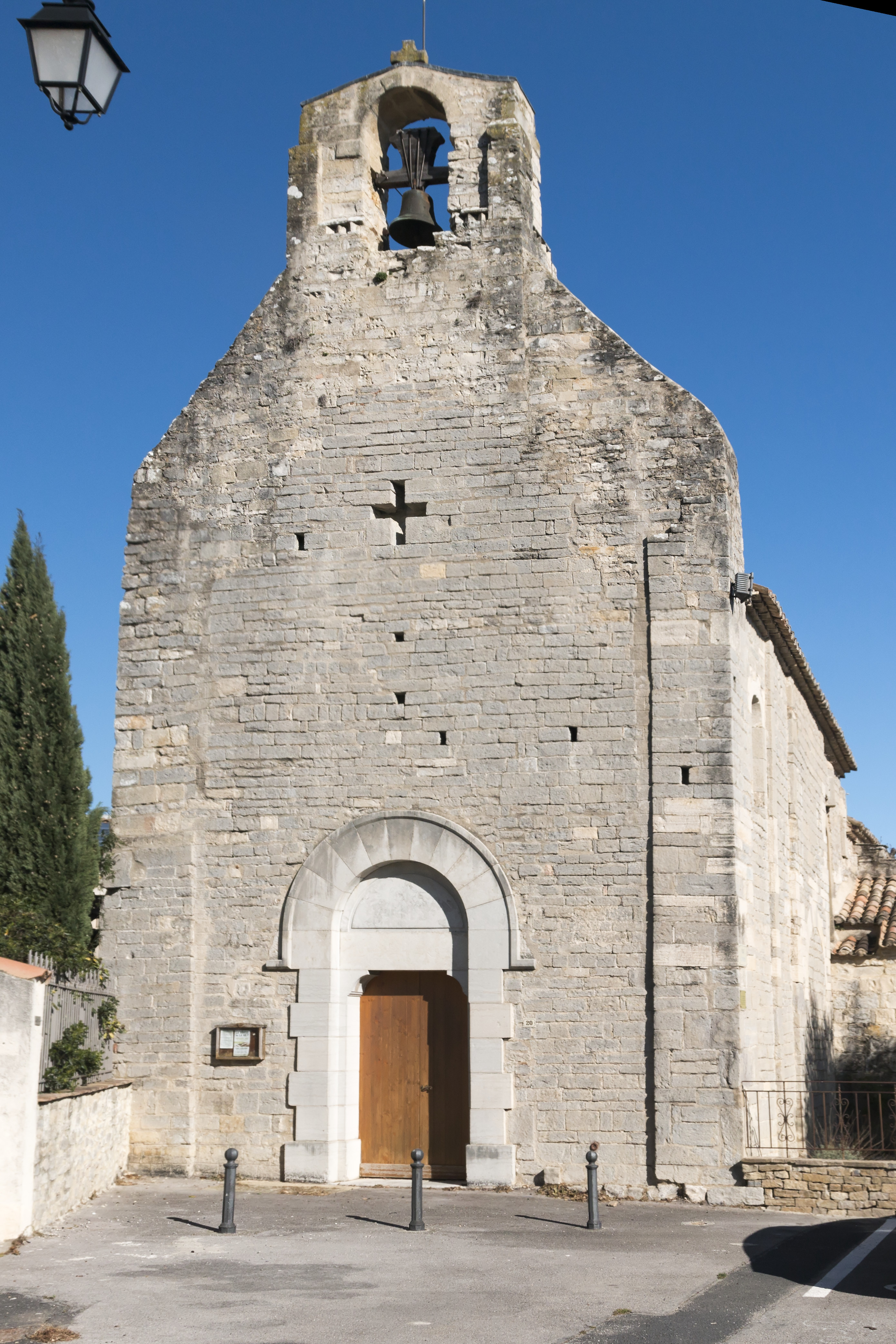 Saint-Privat church, XIth century, very reworked.